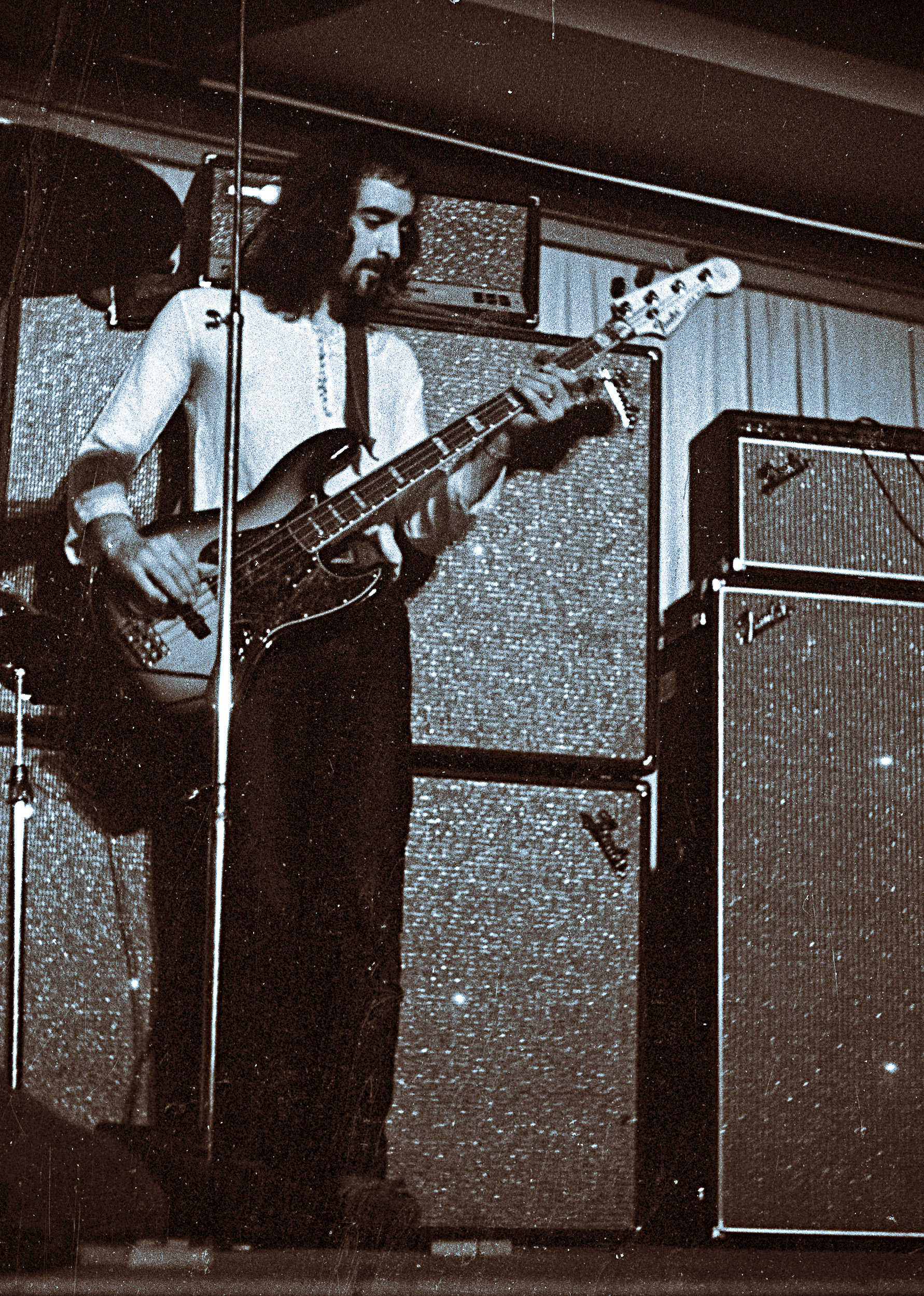 John McVie, Fleetwood Mac, March 18, 1970 Niedersachsenhalle, Hannover, Germany The Touring Band: Mick Fleetwood - Percussion, Peter Green - Lead Vocals/Guitar/Harmonica (left band in May), John McVie - Bass Guitar, Jeremy Spencer - Vocals/Guitar, Danny Kirwan - Vocals/Guitar